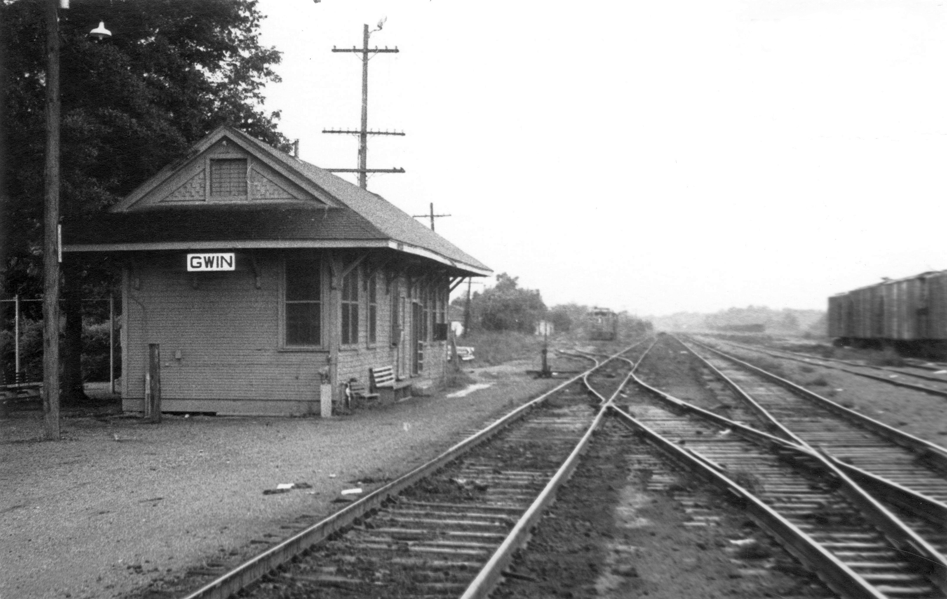 Collection: Railroad Depot Postcard Collection Call number: PI/1987.0009 System ID: 77366 Link to the catalog Illinois Central Depot, Gwin, Miss. July 1975. Please see our profile page for information on ordering. Scanned as tiff in 2008/11/10 by MDAH. Credit: Courtesy of the Mississippi Department of Archives and History